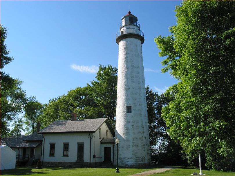 The Pointe aux Barques Lighthouse near Huron City, Michigan, United States is listed on the US National Register of Historic Places (NRHP). The lighthouse is still in operation as an aid to navigation, and houses two museums in portions of the facility no longer needed by the Coast Guard. NRHP reference number 73000949